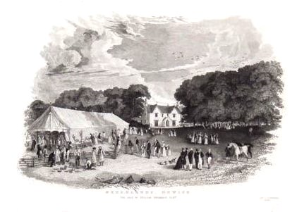 Beechlands (Beechland House), Newick, Sussex, England; a village fair in the foreground. Illustration for The History, Antiquities, and Topography of the County of Sussex (1835) by Thomas Walker Horsfield, publisher J. Baxter.